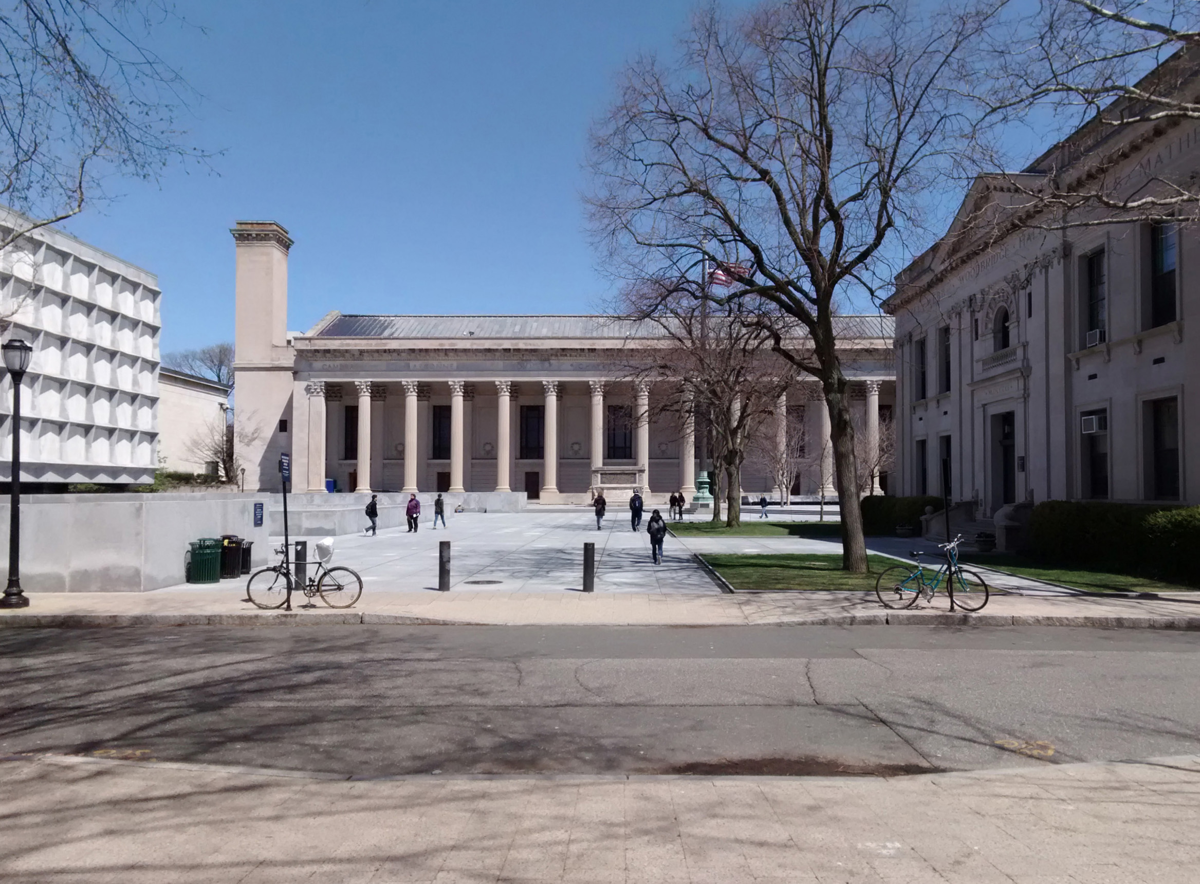 Yale University Commons Building/Schwarzman Center, Bicentennial Buildings, 1901/02, John M. Carrère/Thomas Hastings, Hewitt Quadrangle/Beinecke Plaza, New Haven/Connecticut, Apr. 2014